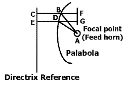 Parabolic Reflector